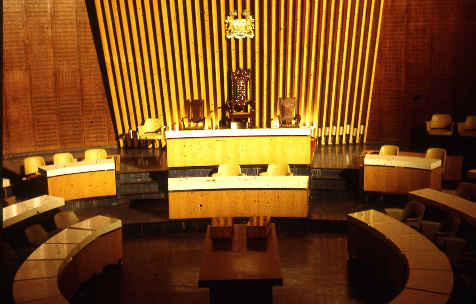 Parliament of Sierra Leone, undated old photograph